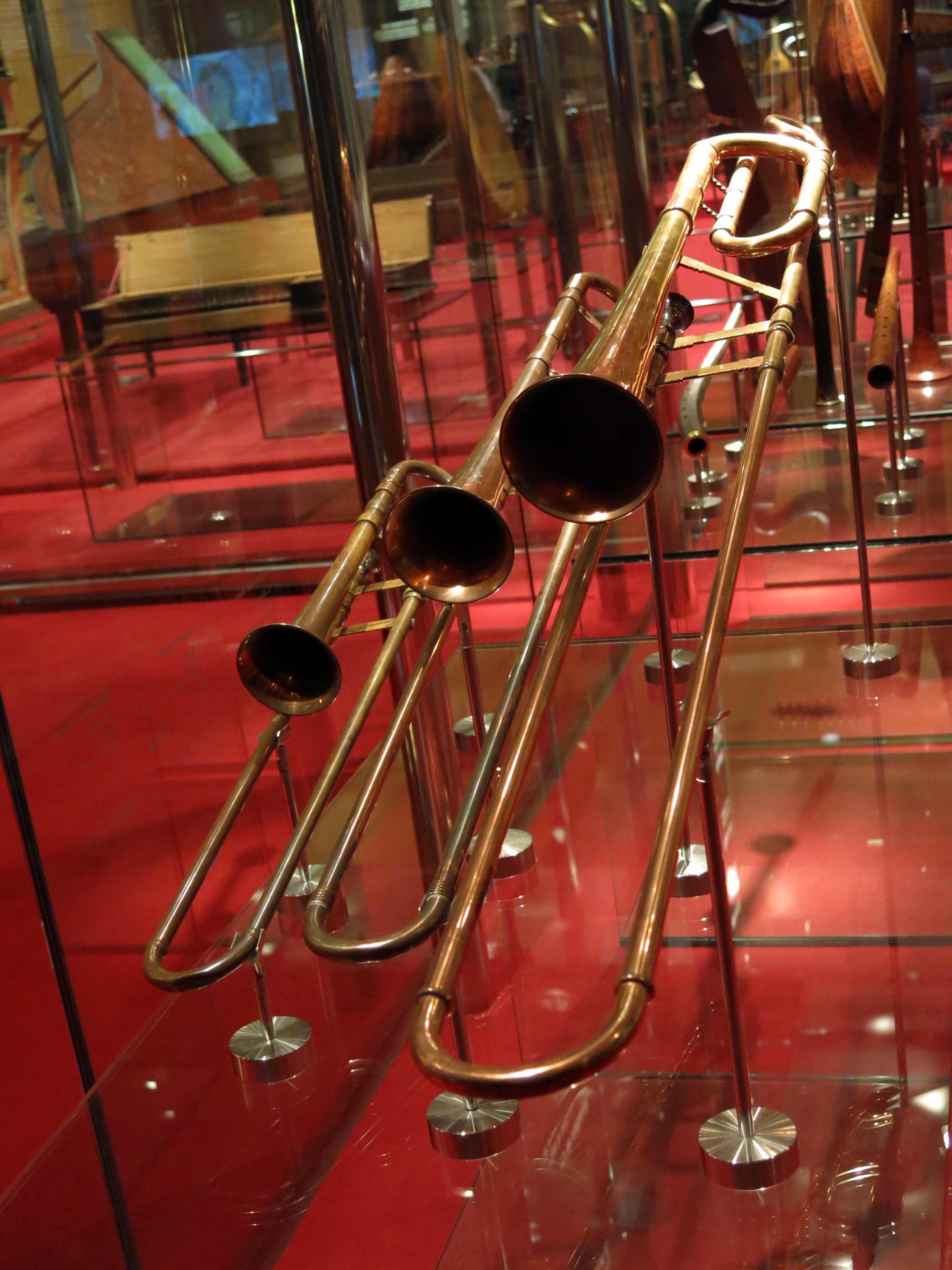 Sackbutts, in the Museu de la Música de Barcelona